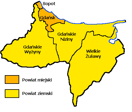 Administrative division of Free City of Danzig/Gdańsk.